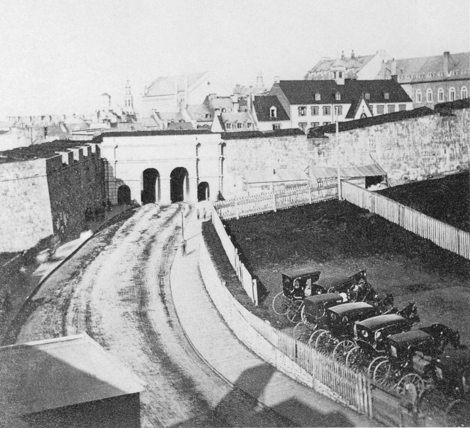 D'Youville square and the old Saint-Jean gate, in Quebec City, Quebec, Canada, circa 1870. This incarnation of the Saint-Jean Gate was built in 1865.